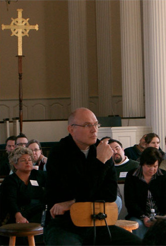 Miroslav Volf, taken in January 2006.